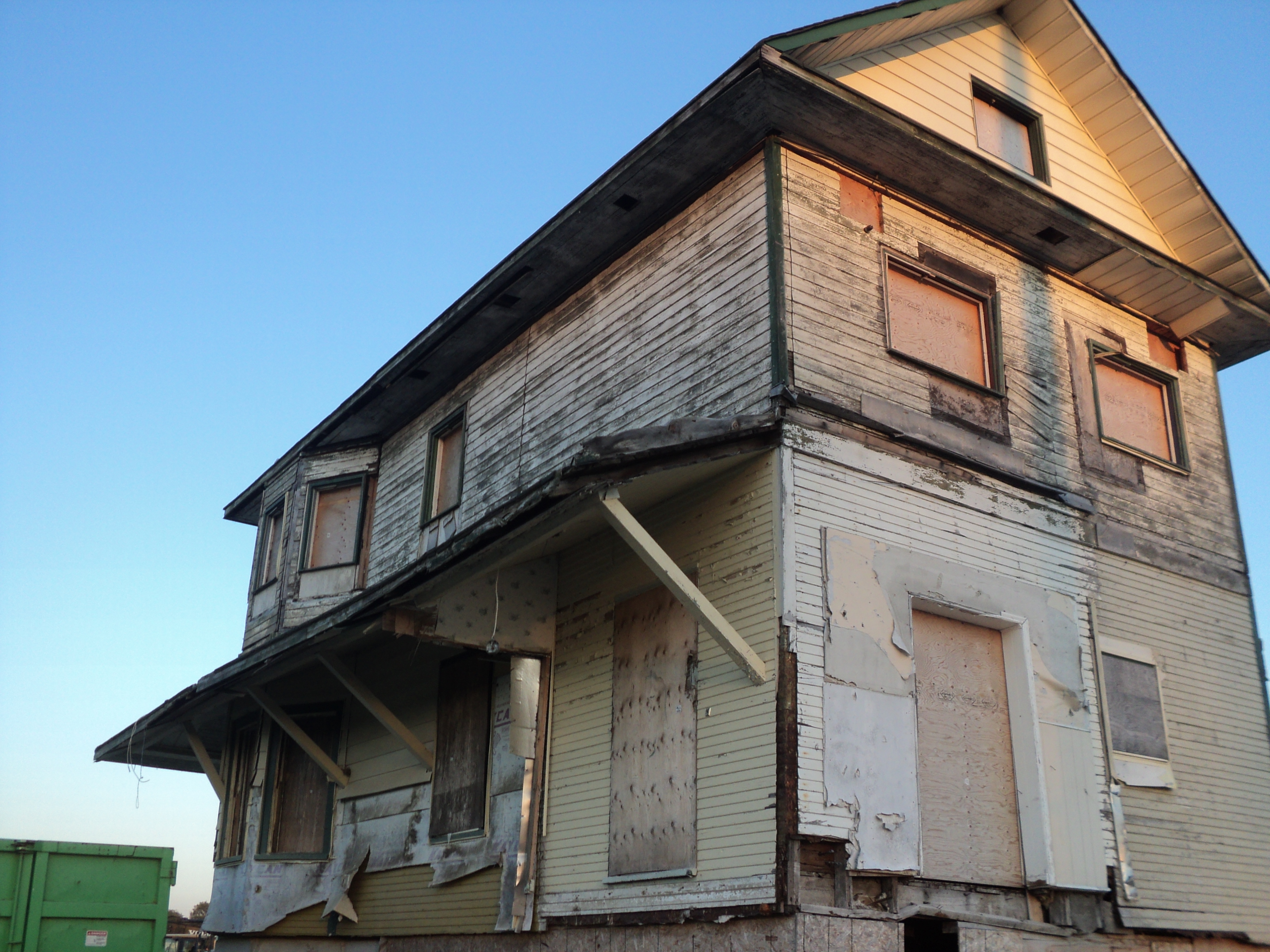 Side view showing the covered platform.